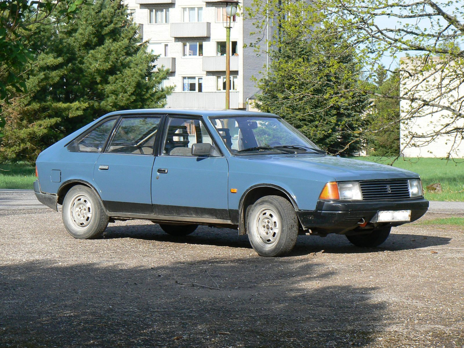 Moskvitch-21412 color GulfStream